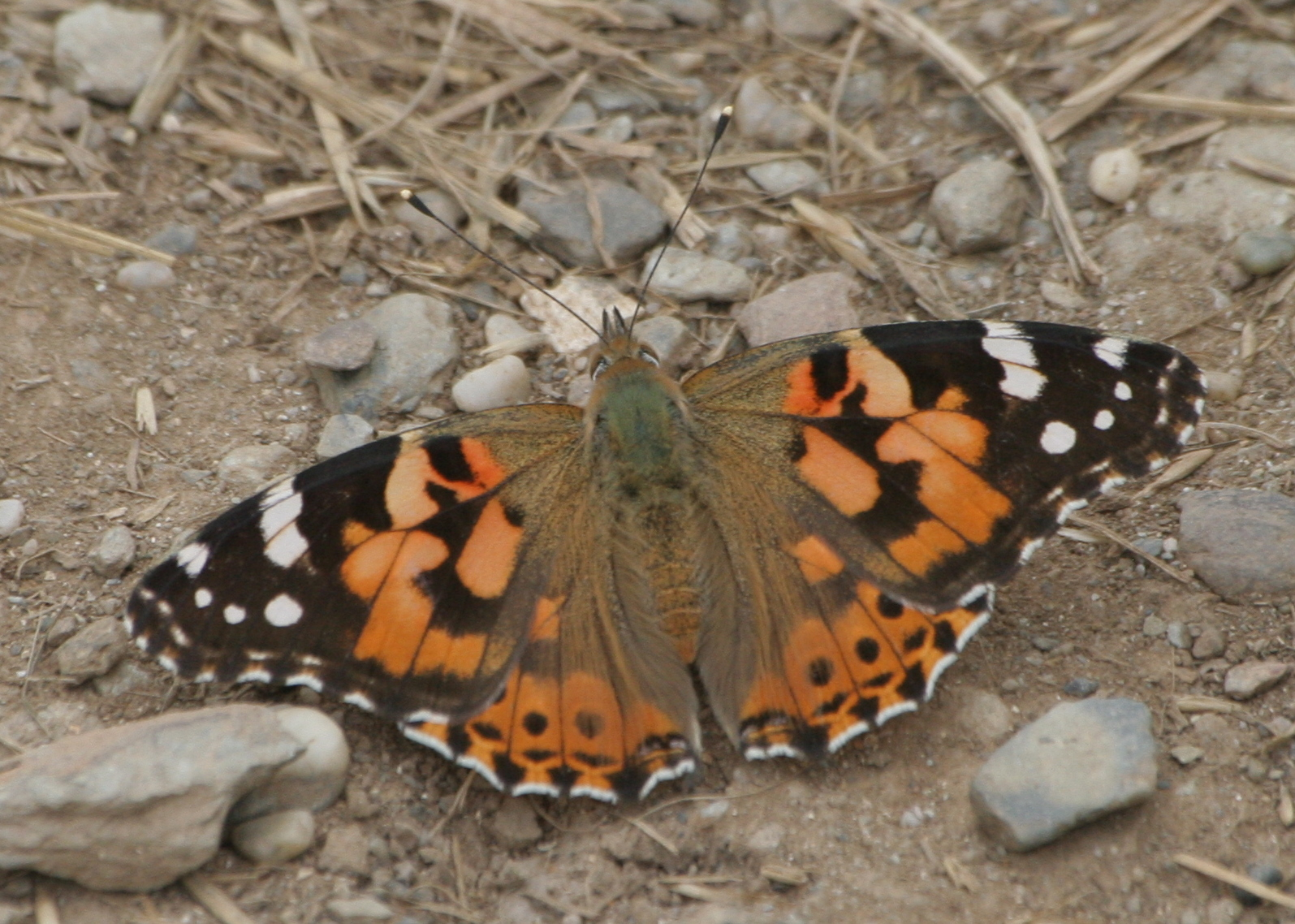 Cynthia cardui on south Cornish coast